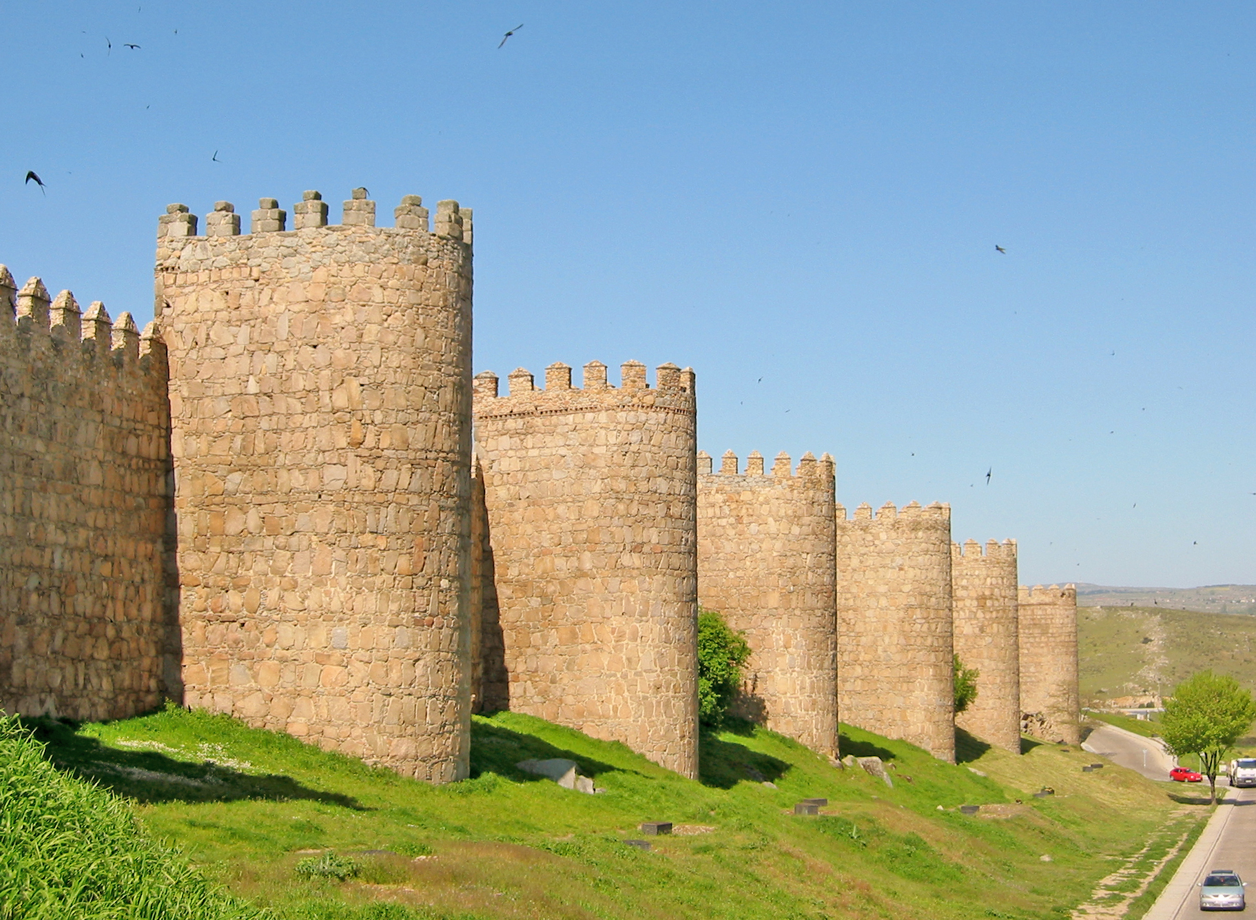 The city walls of Ávila (Province of Ávila, Castile and León, Spain).